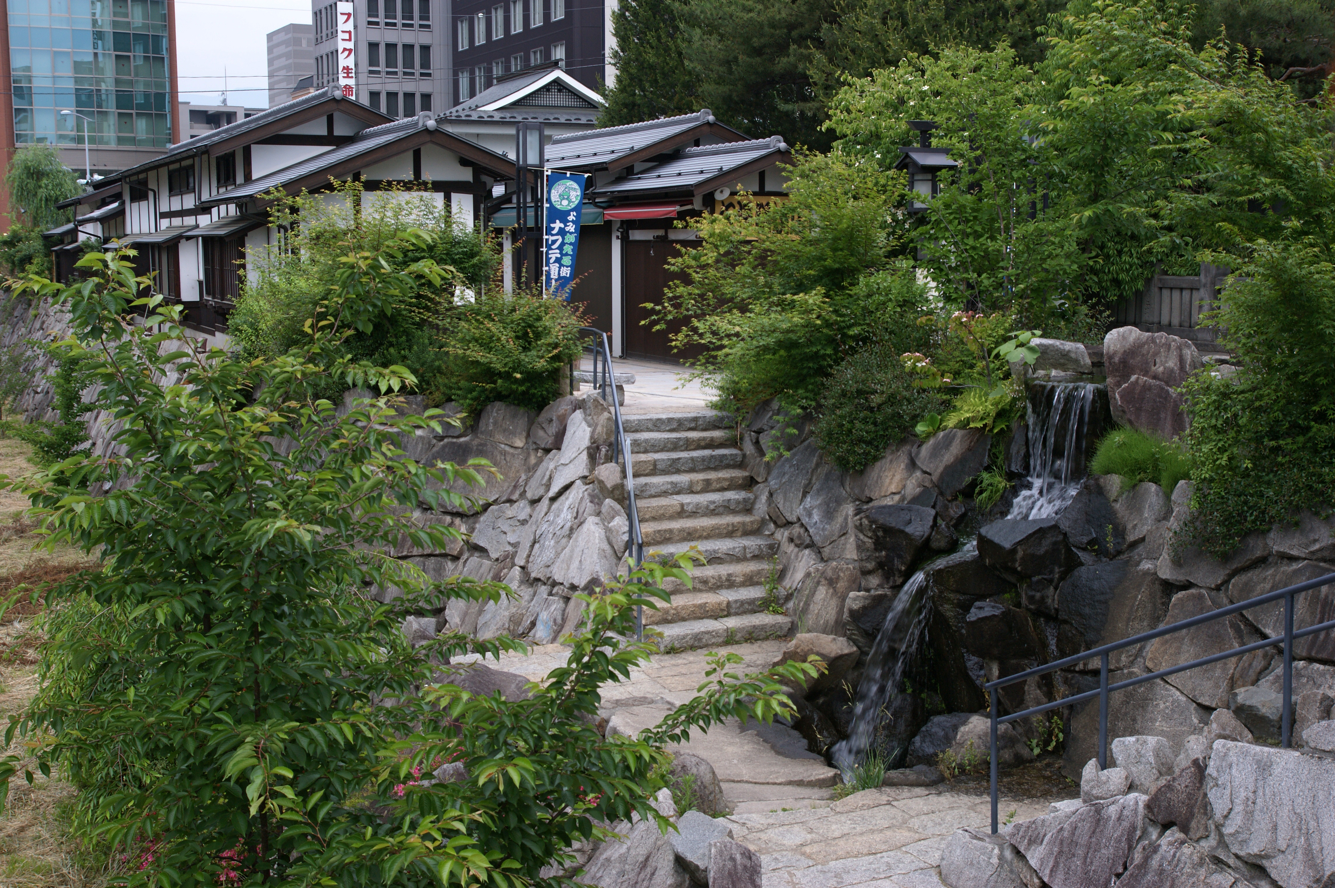 Nawate shop street in Matsumoto, Nagano prefecture, Japan